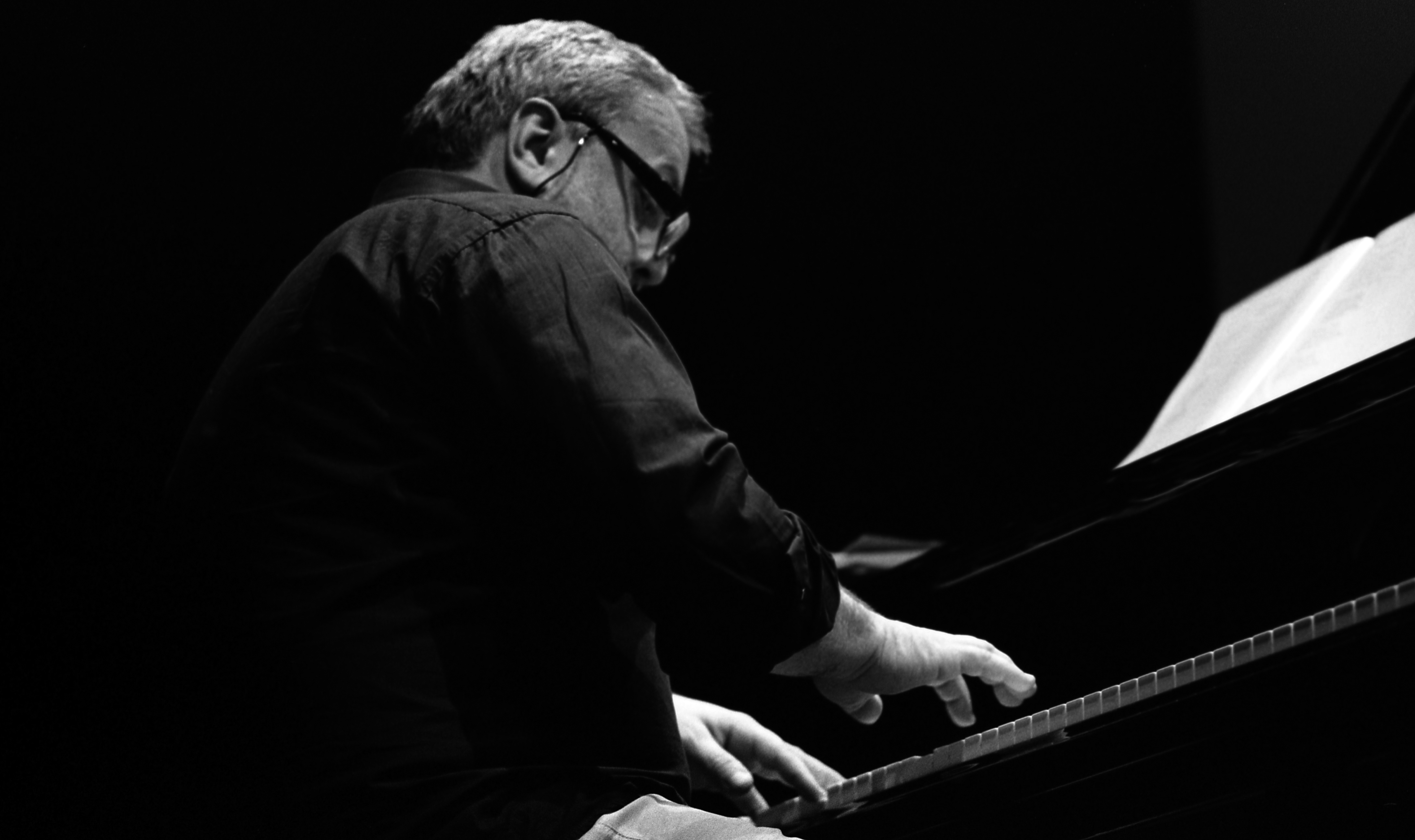 Reinhardt playing piano